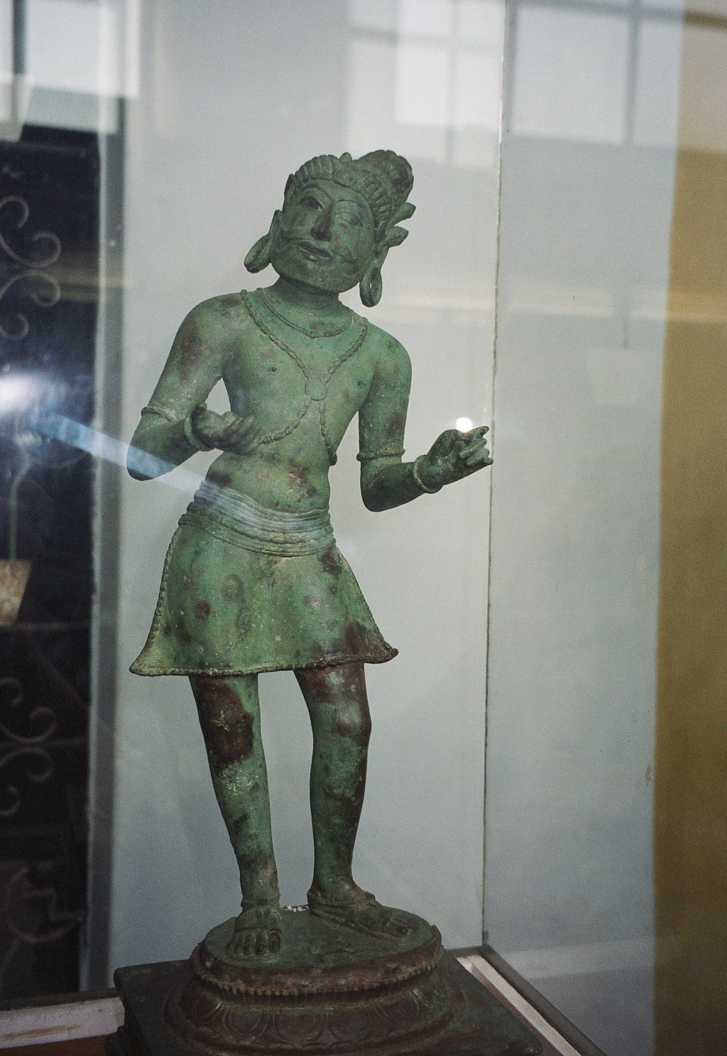 Kannappar after removal of eye